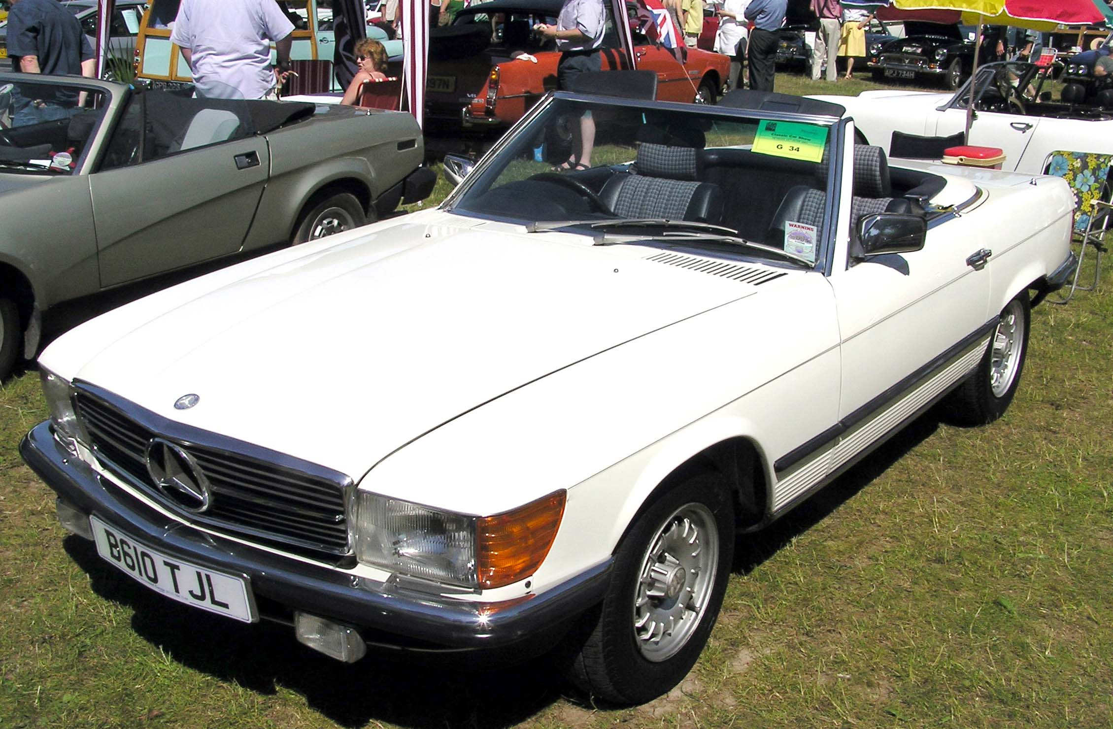 Mercedes-Benz 280SL, probable registration date 1985, at Bristol Car Show, The Downs, Bristol, England. Taken by Adrian Pingstone in June 2004 and released to the public domain.